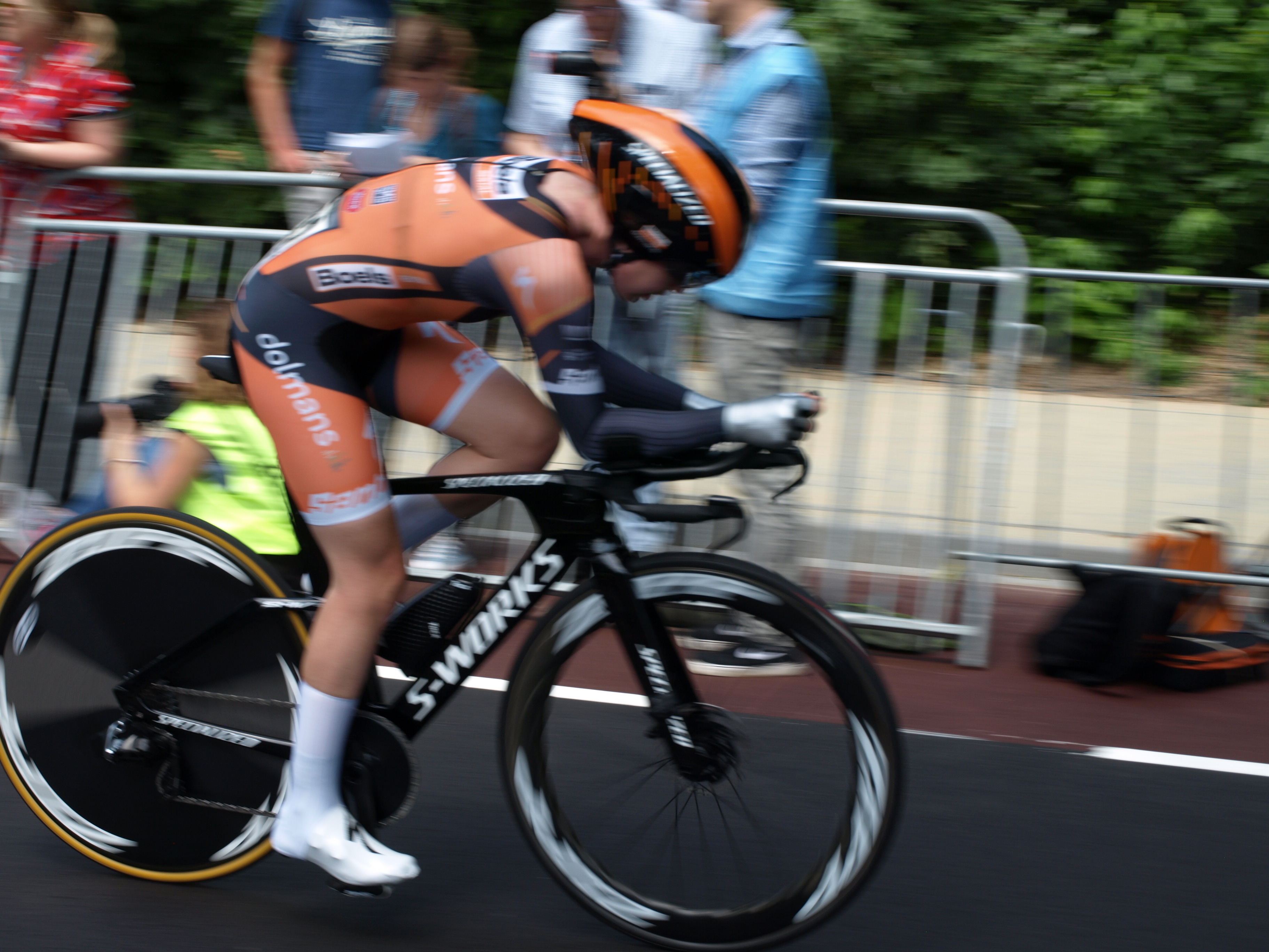 Dutch Championship Cycling 2019 Time Trial Women. Anna van der Breggen at the finish.